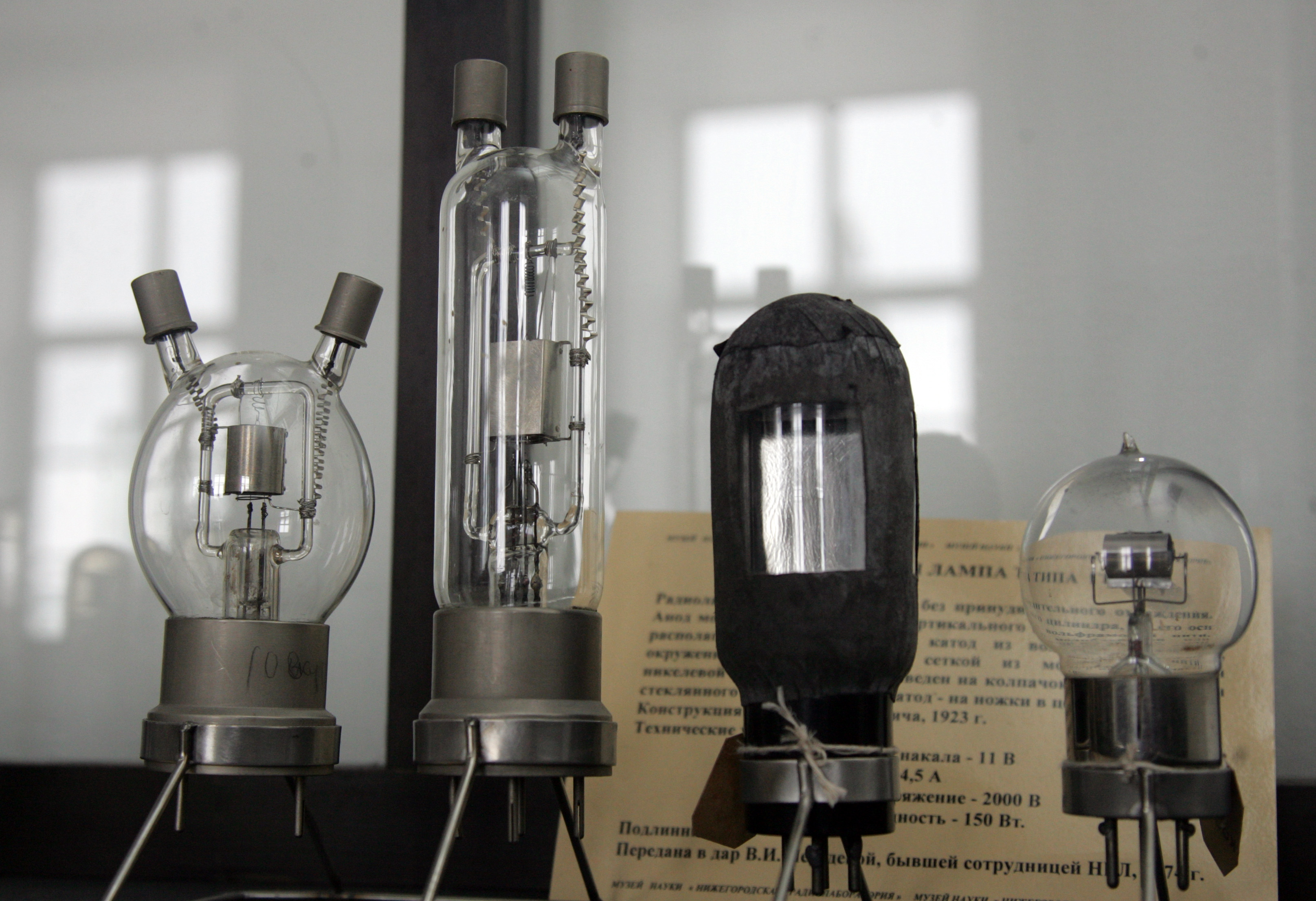 Soviet vacuum tubes produced in 1930th. Exhibition of Nizhny Novgorod Radio laboratory.